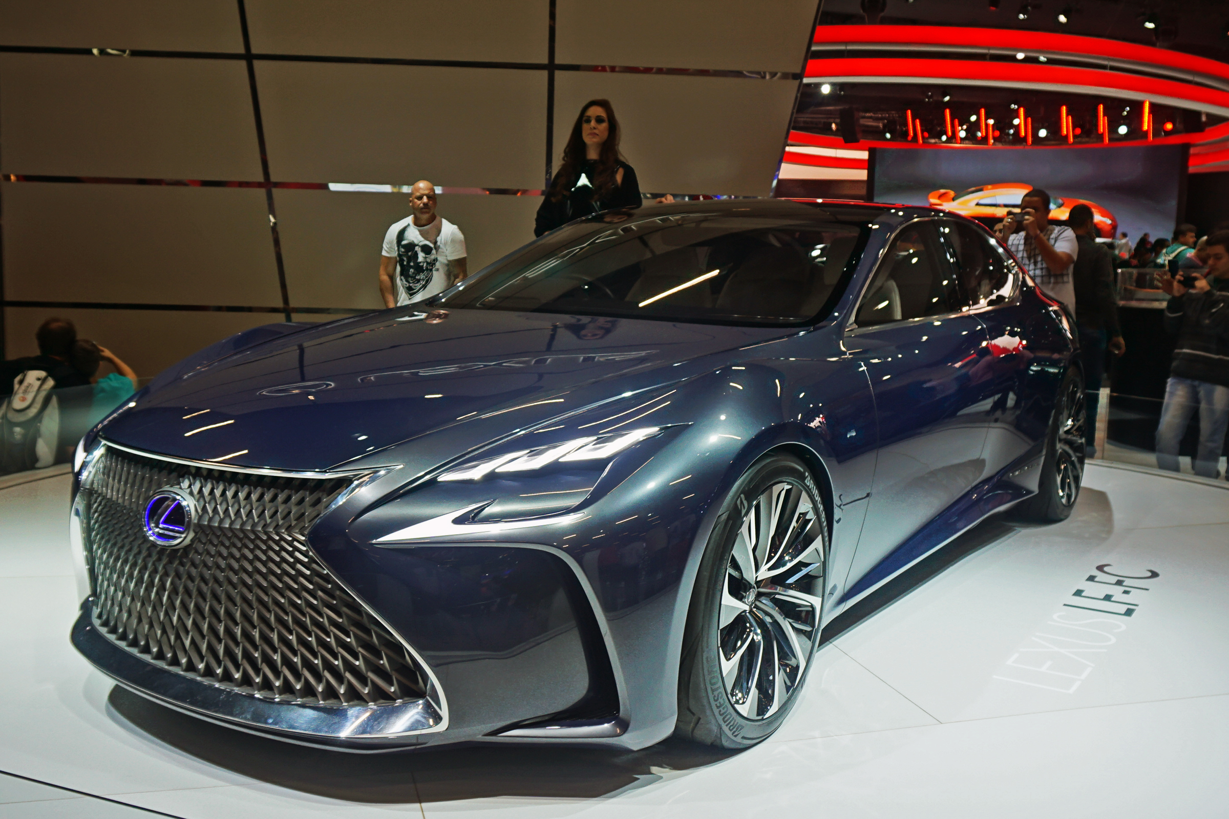 Lexus LF-FC hydrogen fuel cell concept exhibited at the Salão Internacional do Automóvel 2016 São Paulo, Brazil